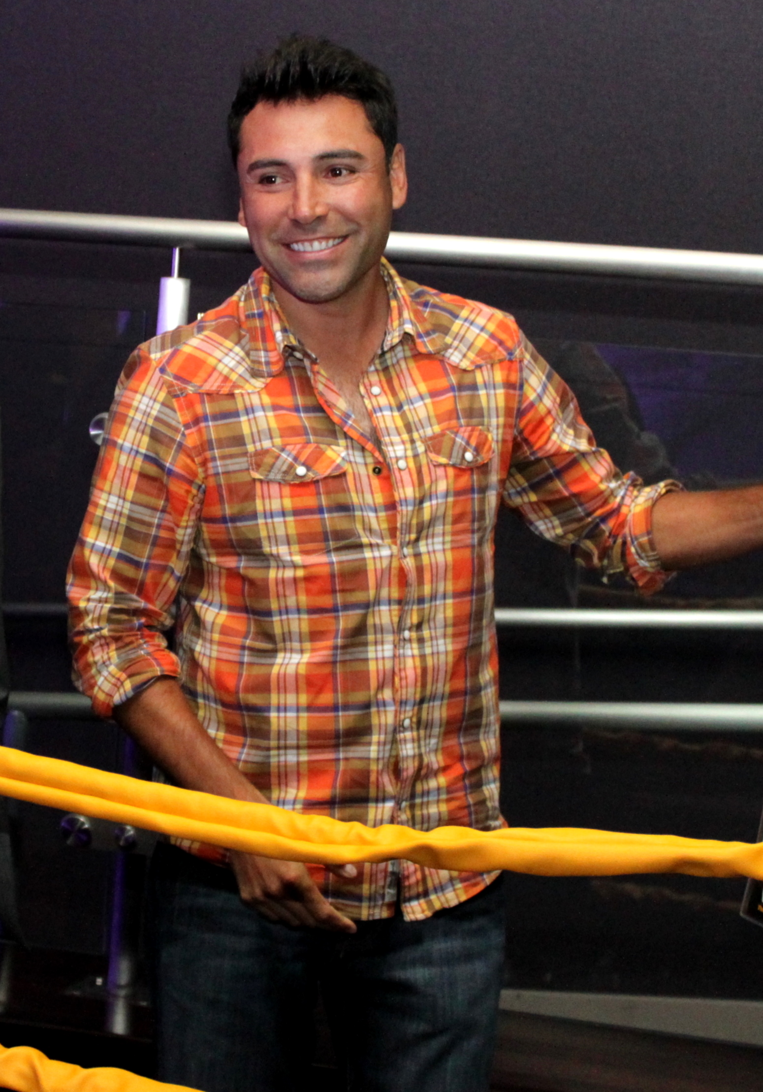 Oscar De La Hoya at Fight Night Club event at the Club Nokia in Los Angeles, California, United States.